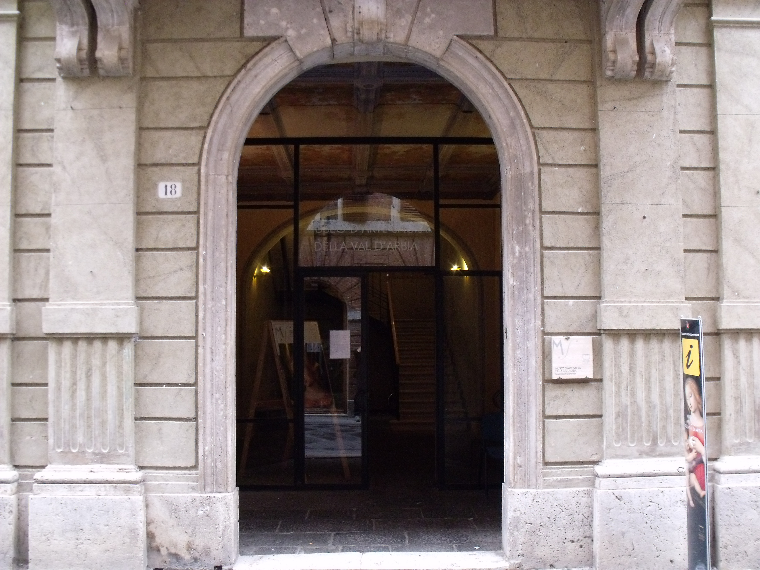 Entrance of the Museo di Arte sacra della Val d’Arbia in Buonconvento, Province of Siena, Tuscany, Italy